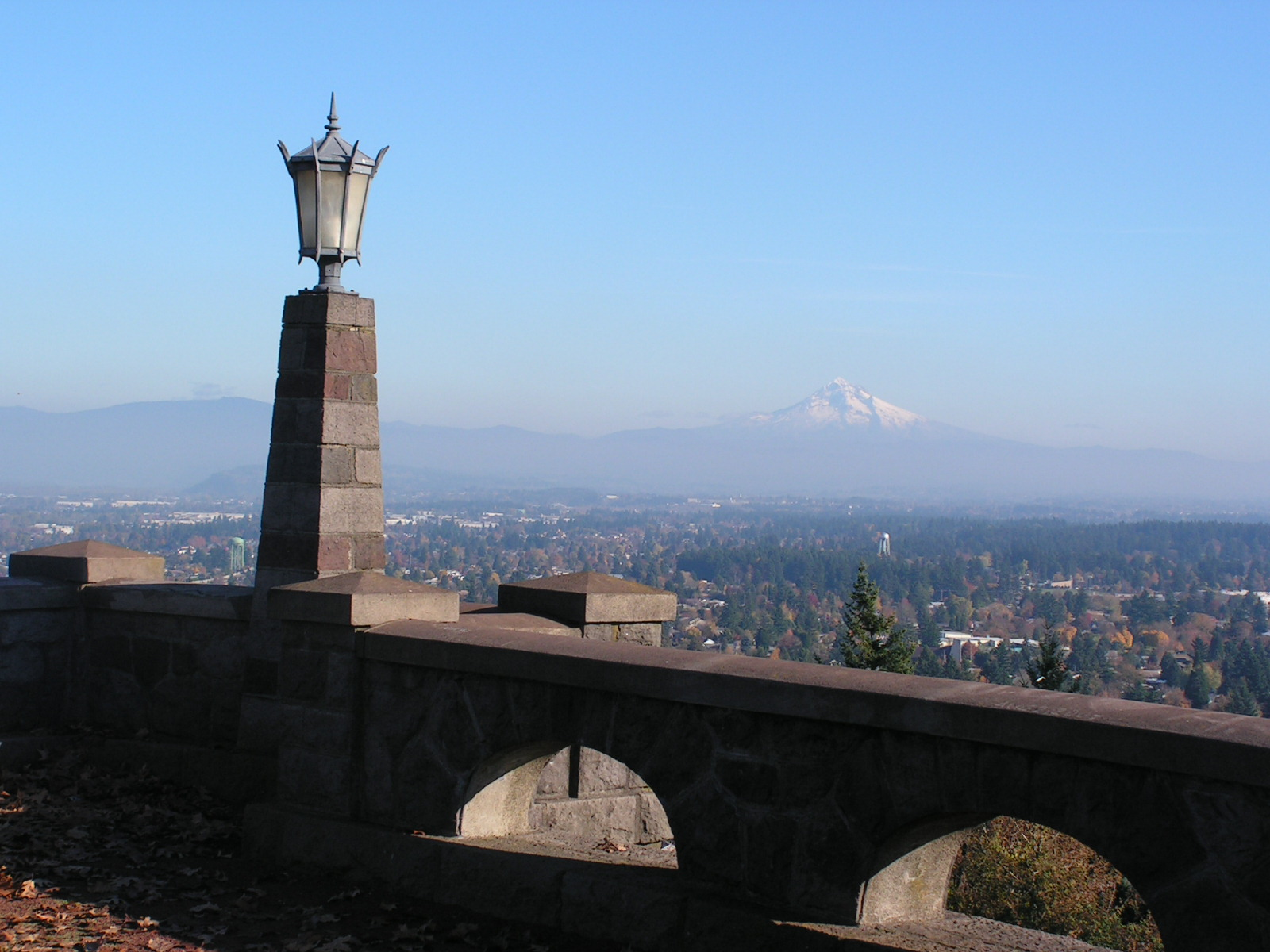 View to the east of Mount Hood from Joseph Wood Hill Park on Rocky Butte in Portland, Oregon, United States.